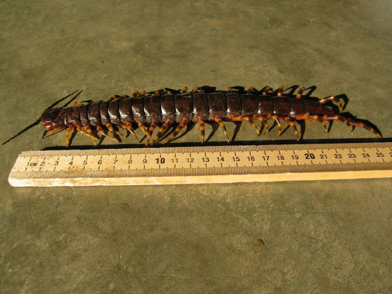 Scolopendra gigantea.